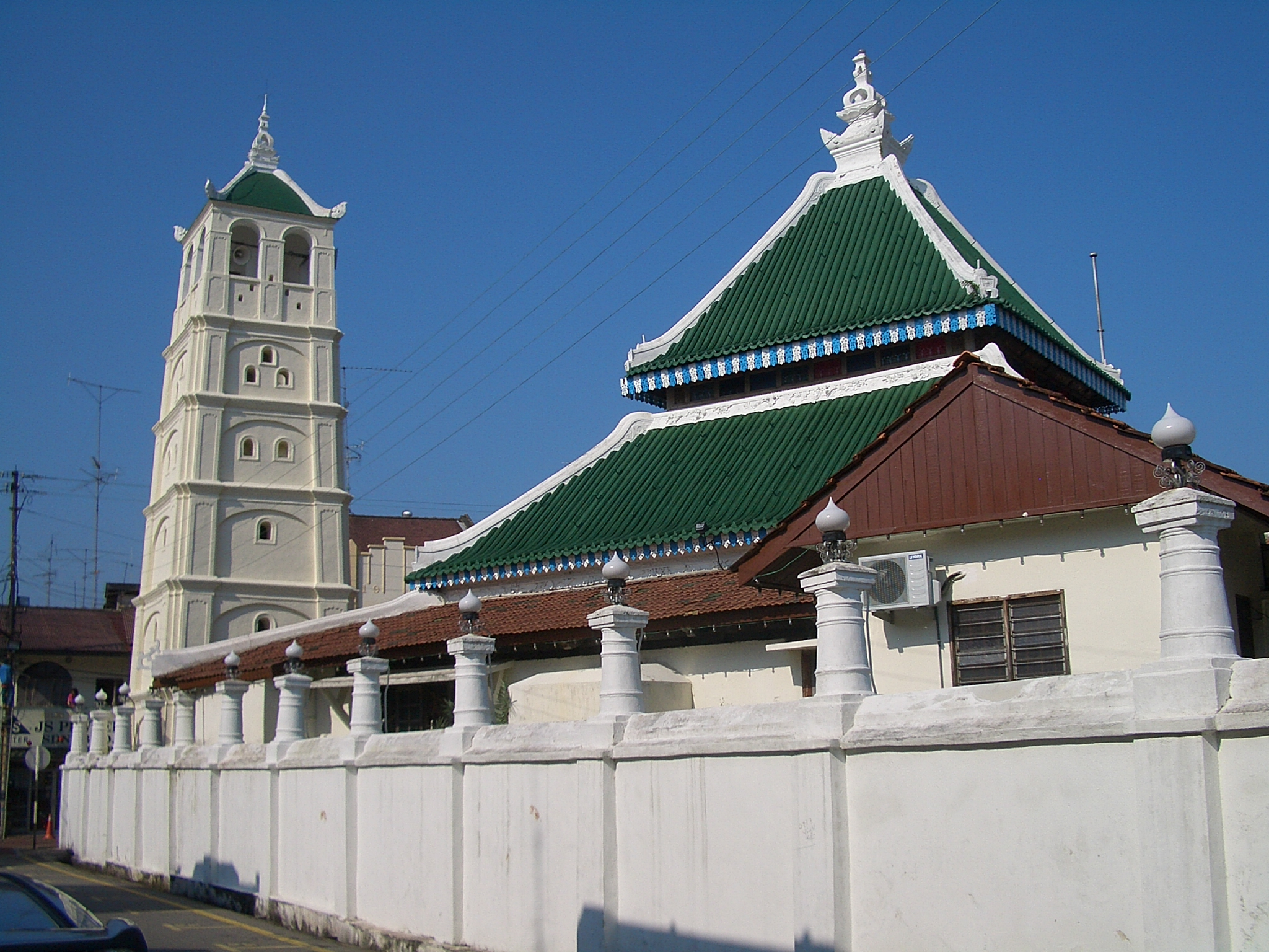 Masjid Kampung Kling, the old town of Melacca